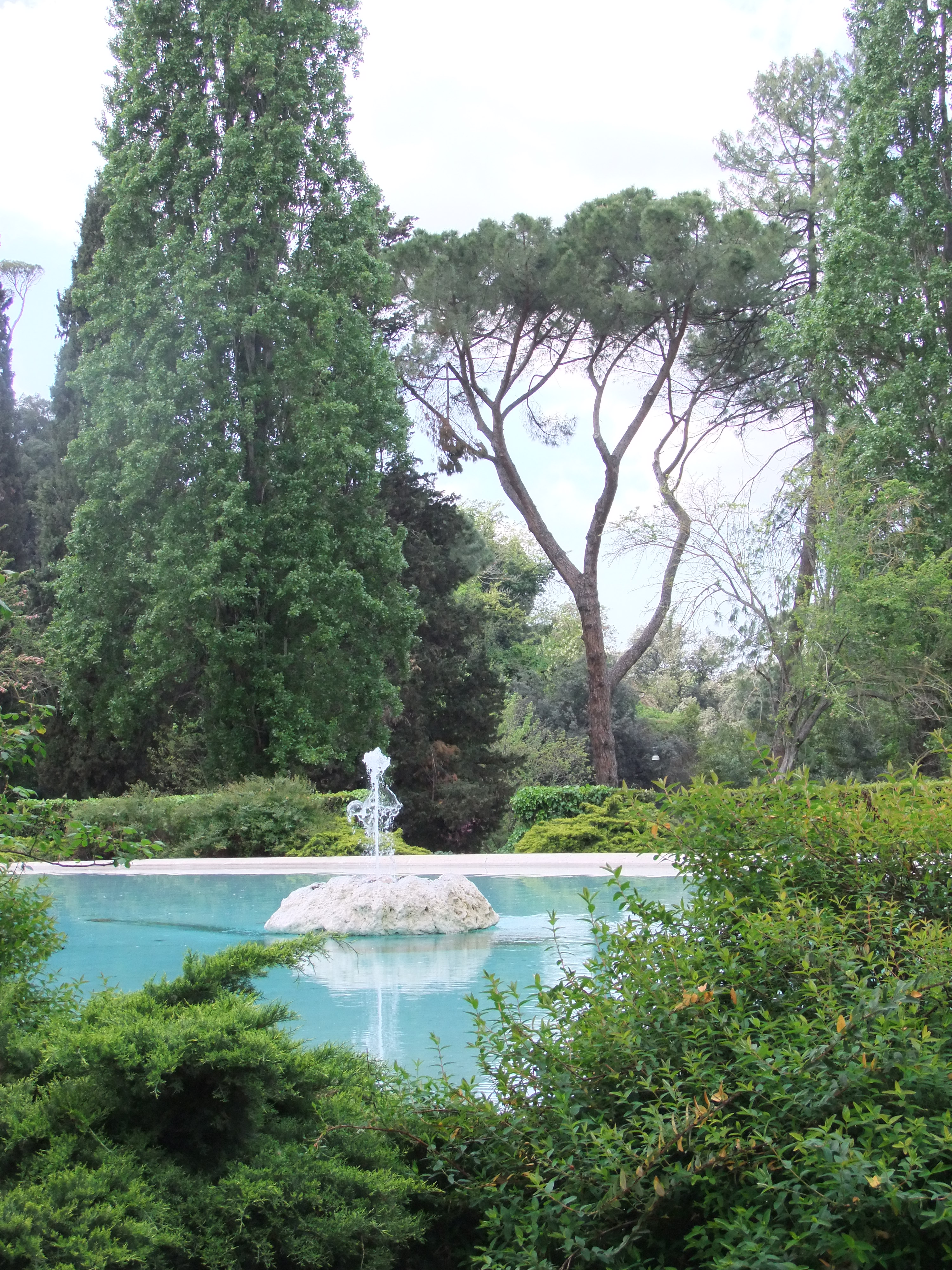 Fountain in the garden of Villa Borghese, Rome, Italy.